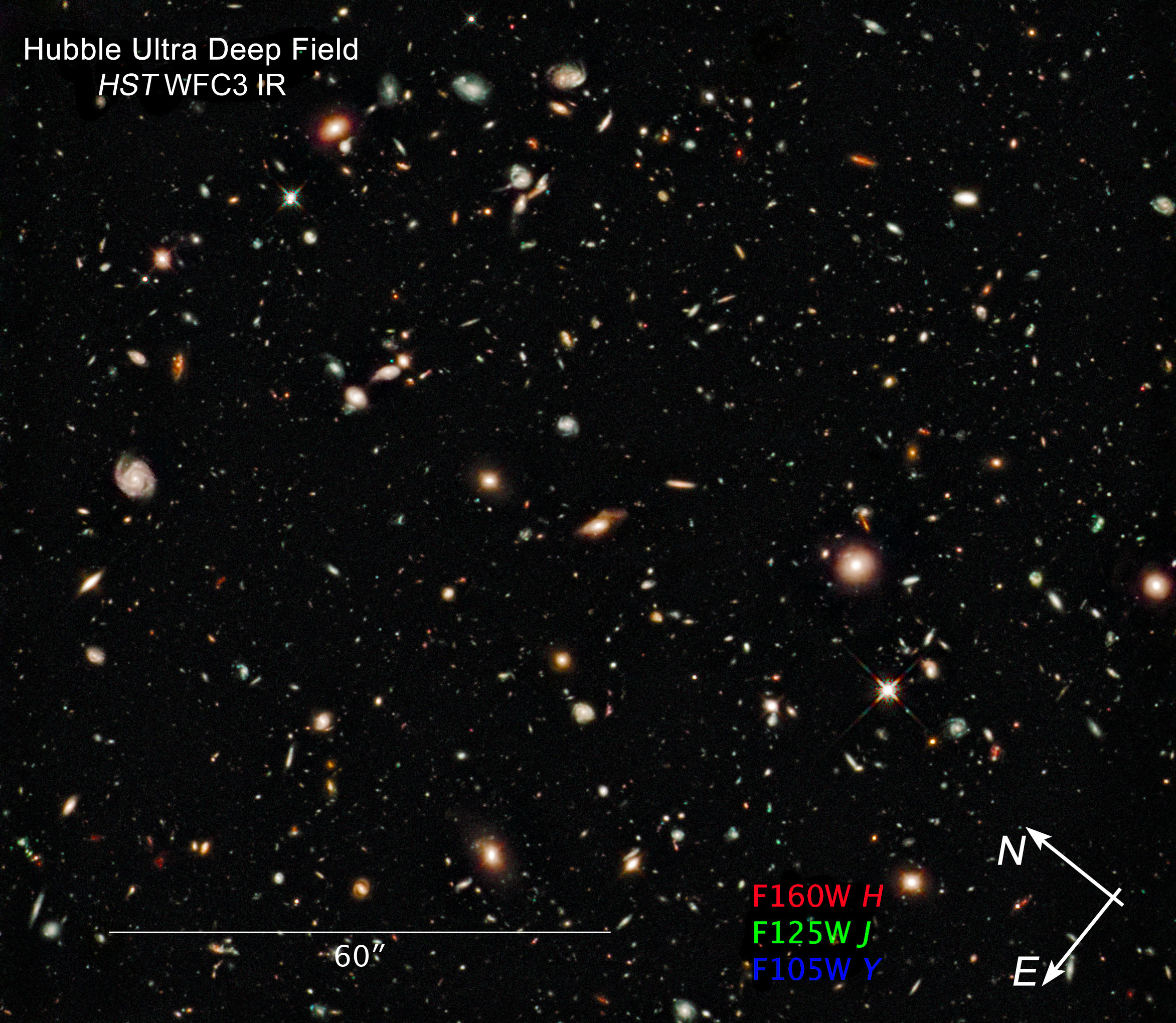 The image was taken in the same region as the Hubble Ultra Deep Field (HUDF), which was taken in 2004 and is the deepest visible-light image of the universe. Hubble's newly installed Wide Field Camera 3 (WFC3) collects light from near-infrared wavelengths and therefore looks even deeper into the universe, because the light from very distant galaxies is stretched out of the ultraviolet and visible regions of the spectrum into near-infrared wavelengths by the expansion of the universe. The photo was taken with the new WFC3/IR camera on Hubble in late August 2009 during a total of four days of pointing for 173,000 seconds of total exposure time. Infrared light is invisible and therefore does not have colors that can be perceived by the human eye. The colors in the image are assigned comparatively short, medium, and long, near-IR wavelengths (blue, 1.05 microns; green, 1.25 microns; red, 1.6 microns). The representation is "natural" in that blue objects look blue and red objects look red. The faintest objects are about one billionth as bright as can be seen with the naked eye